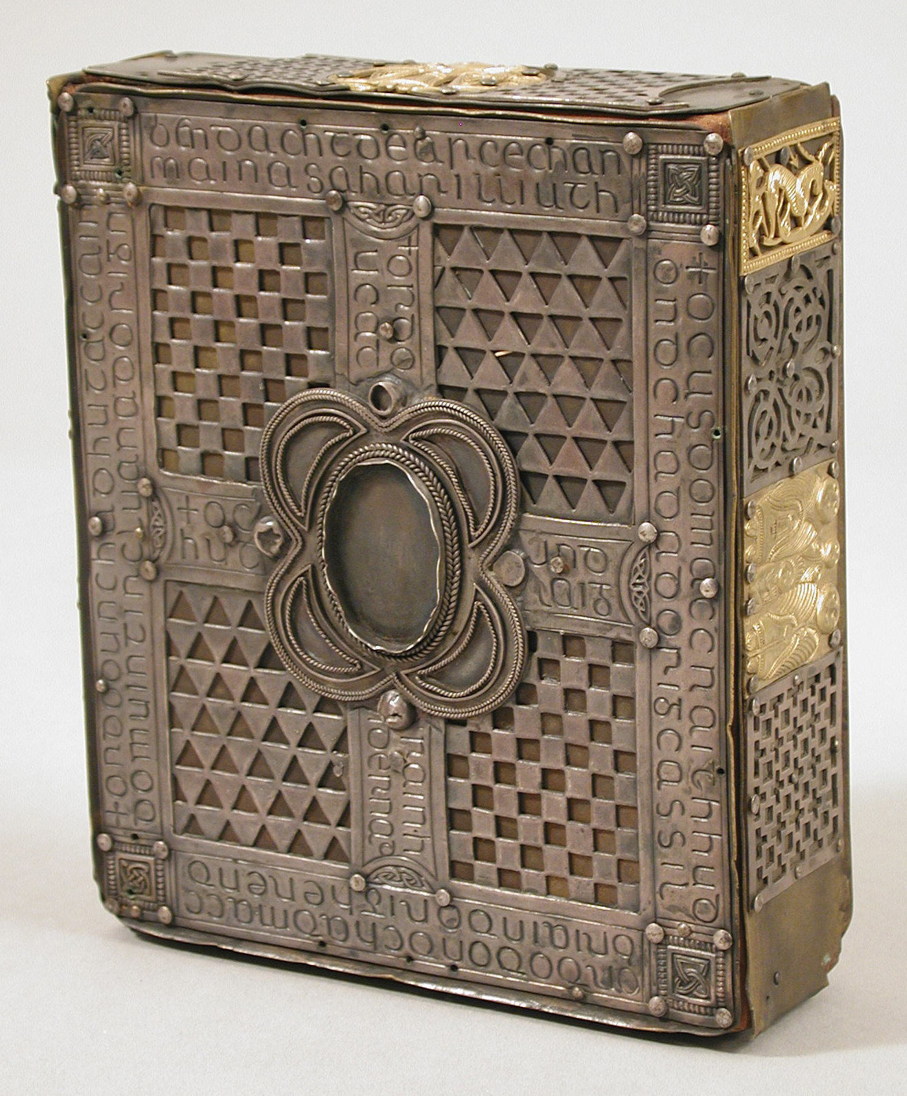 Irish; Book or shrine; Reproductions-Metalwork